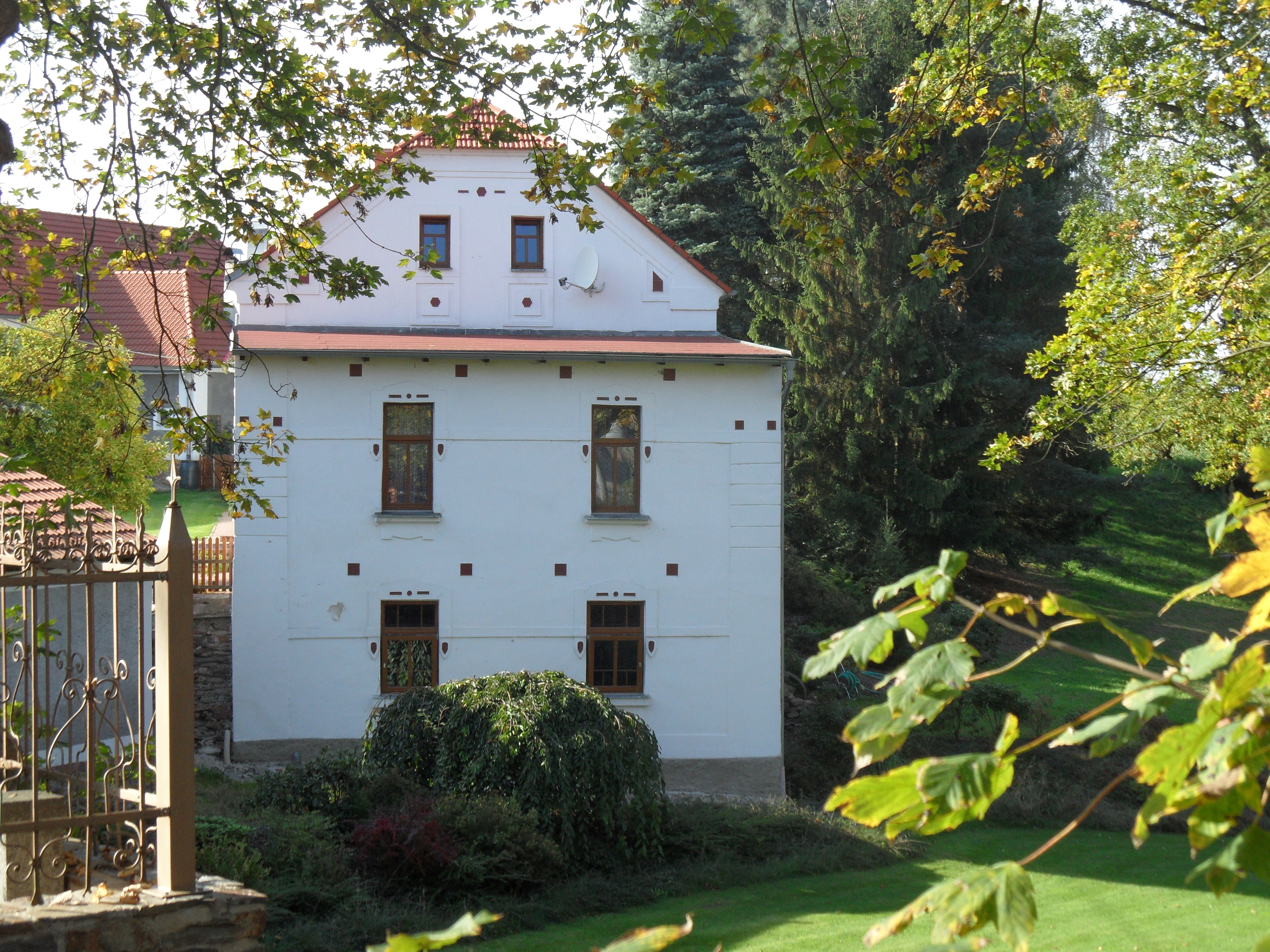 Chrastná (Úžice) D. House near Pond (Former Mill?), Kutná Hora District, the Czech Republic.